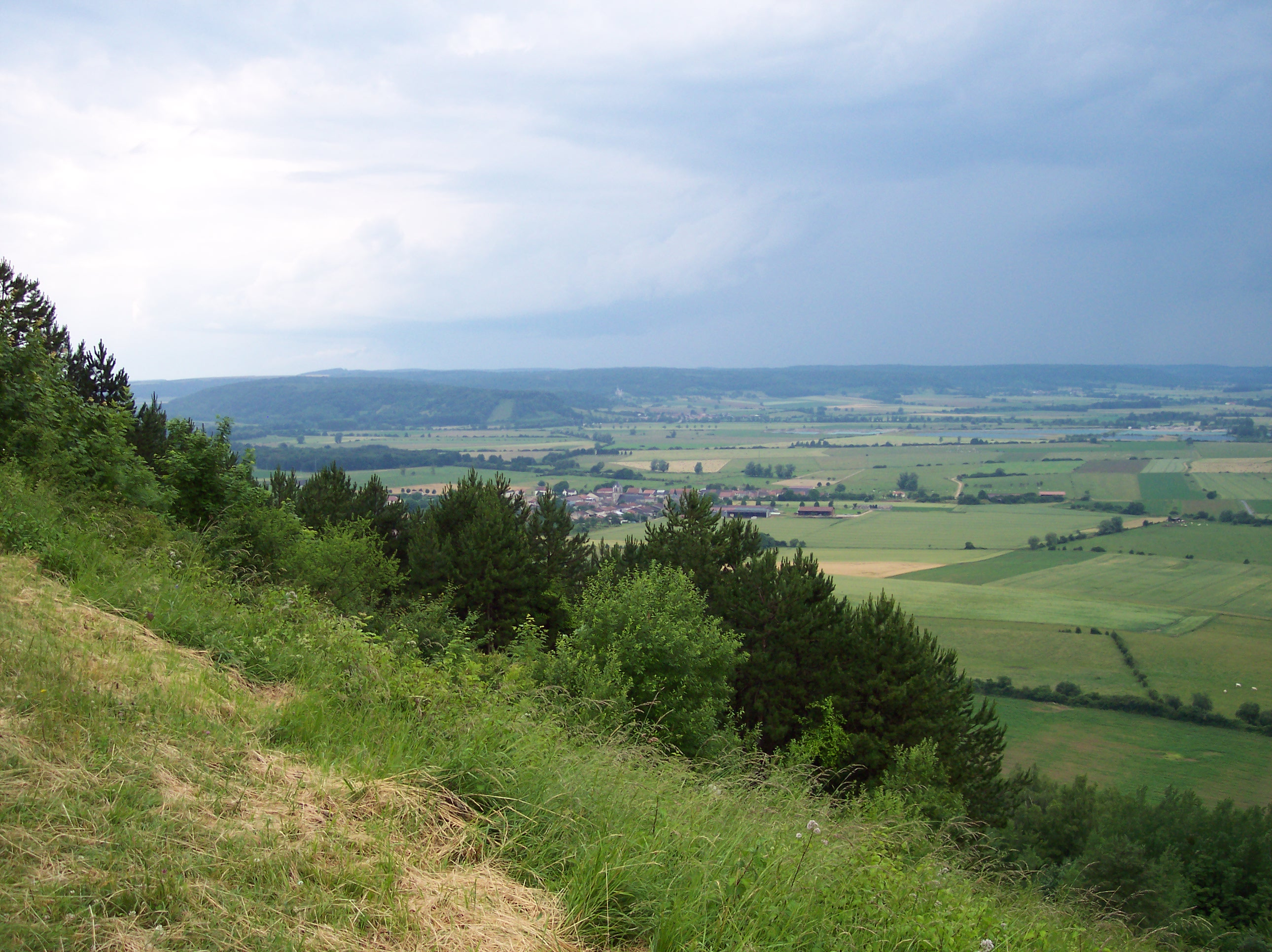 The "côte de Meuse" seen from Saint-Germain Hill, near Dun-sur-Meuse, Meuse, Lorraine, France.